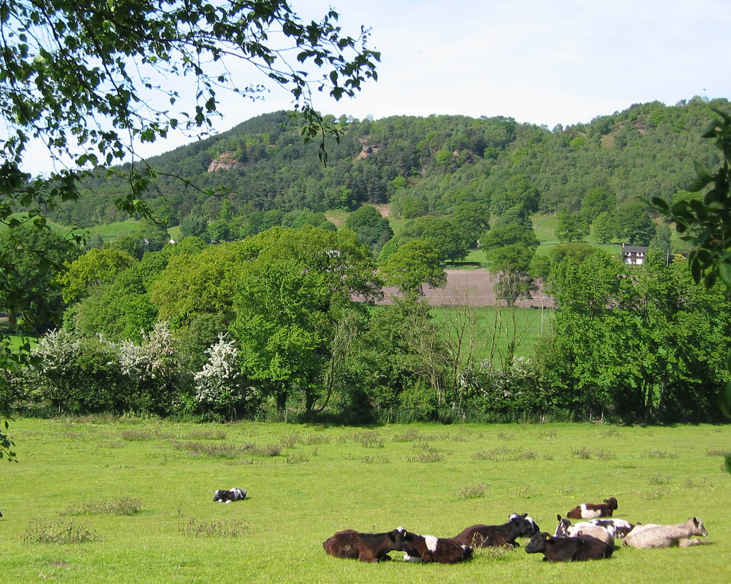 Musket's Hole crags on northern Bickerton Hill (3 June 2006)